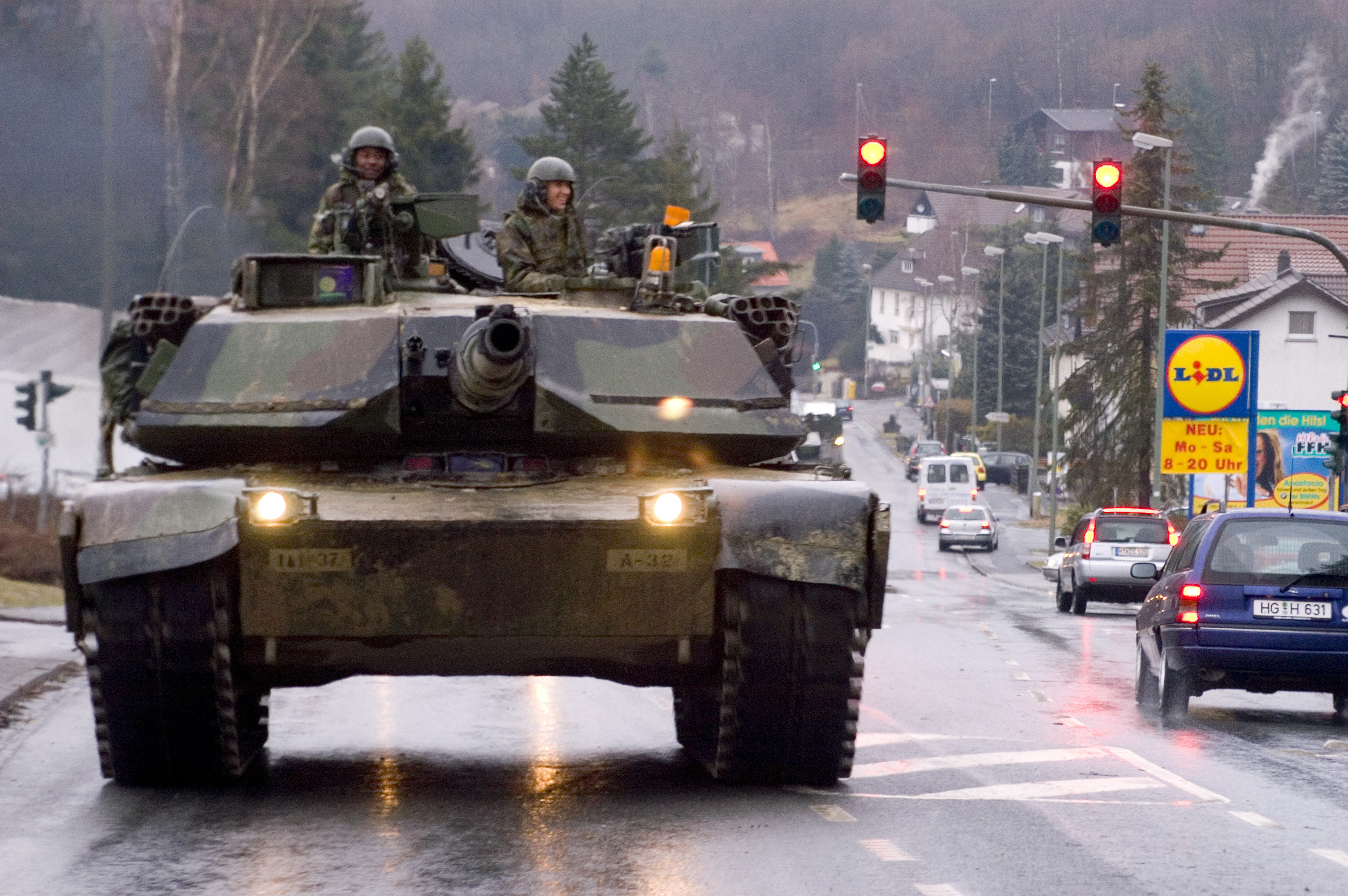 U.S. Army soldiers with the 1st Armored Division drive a M-1A1 Abrams tank through a German town north of Frankfurt, Germany, during Exercise Ready Crucible on Feb. 11, 2005. Soldiers from the 1st Armored Division and V Corps will be conducting the tactical convoy and small unit training exercise through out several communities in the Friedberg, Germany area.